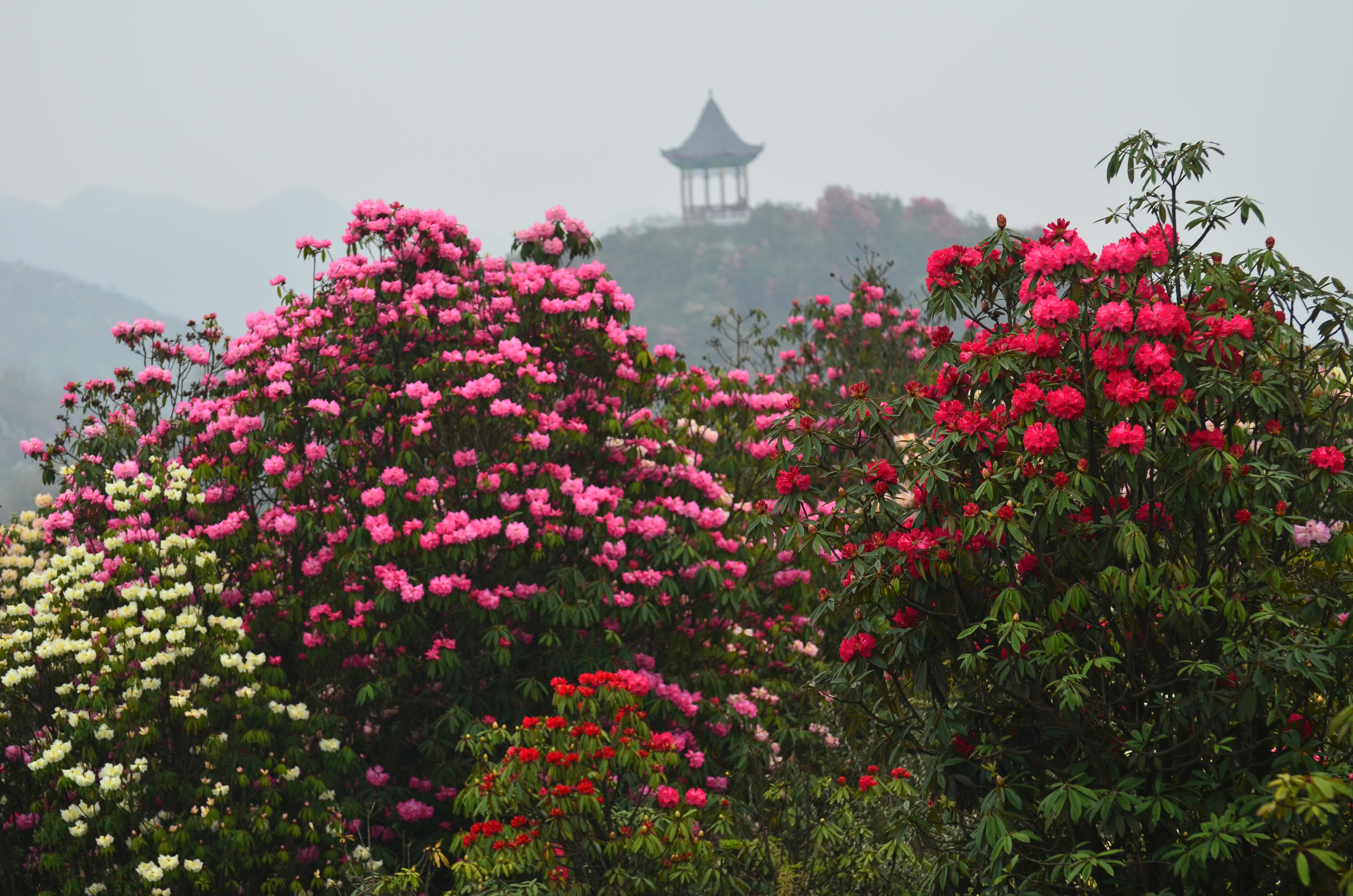 Hundred Miles Azaleas Area, a tourist area in Bijie, Guizhou,China.